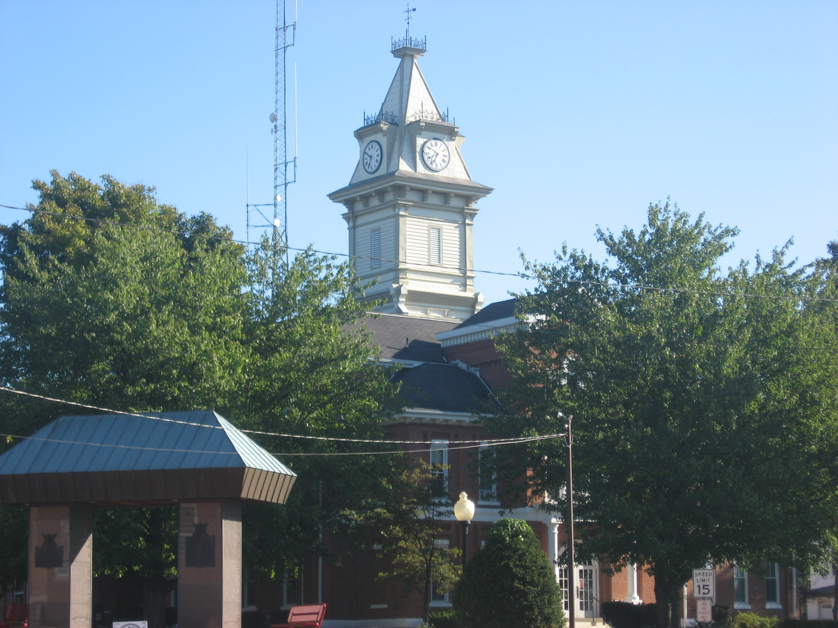 Southern and western sides of the Edwards County Courthouse, located along Illinois Routes 15/130 on Courthouse Square in downtown Albion, Illinois, United States. It was built in 1888.